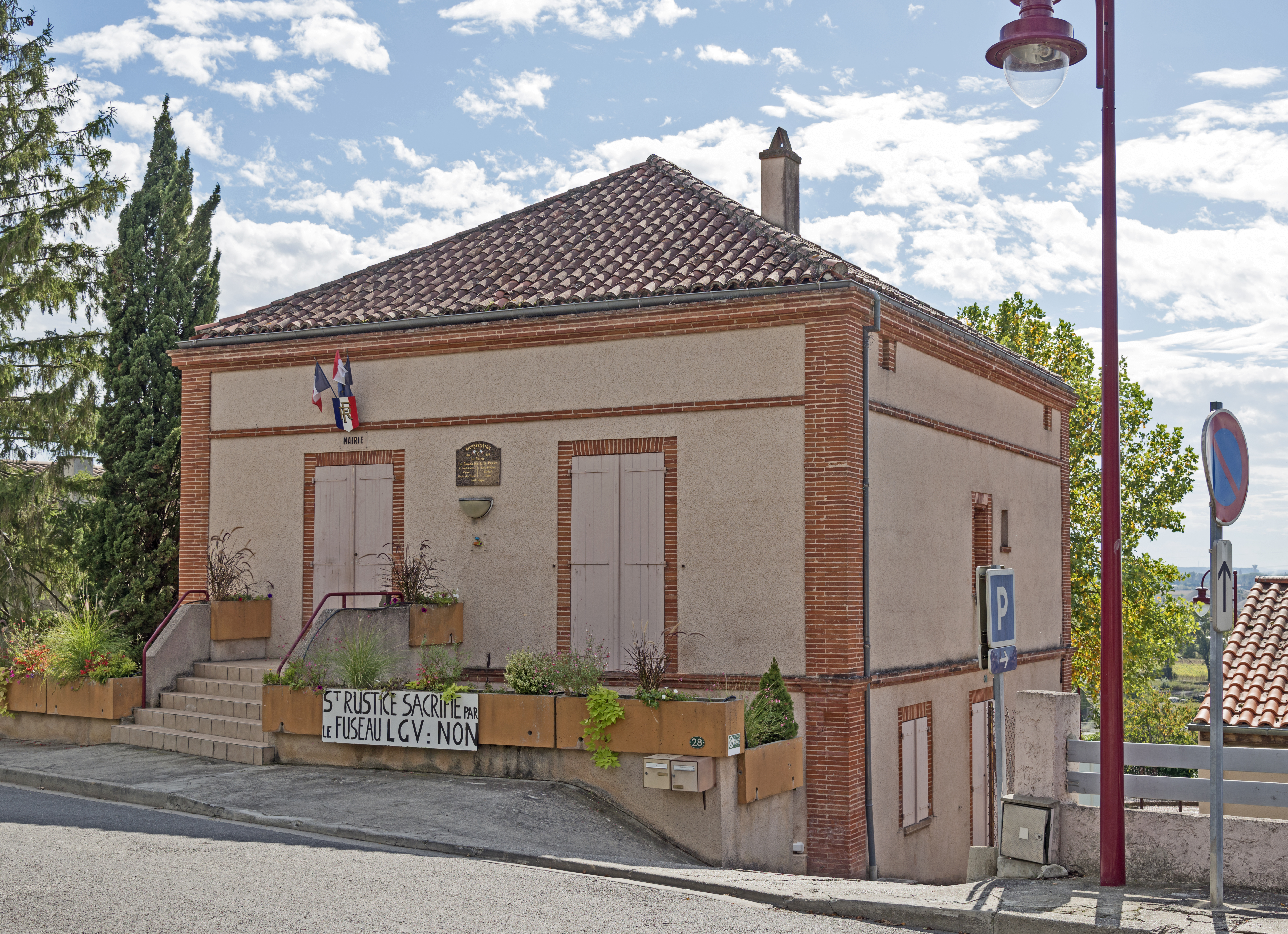 Saint-Rustice, Haute-Garonne. Facade of Town Hall.